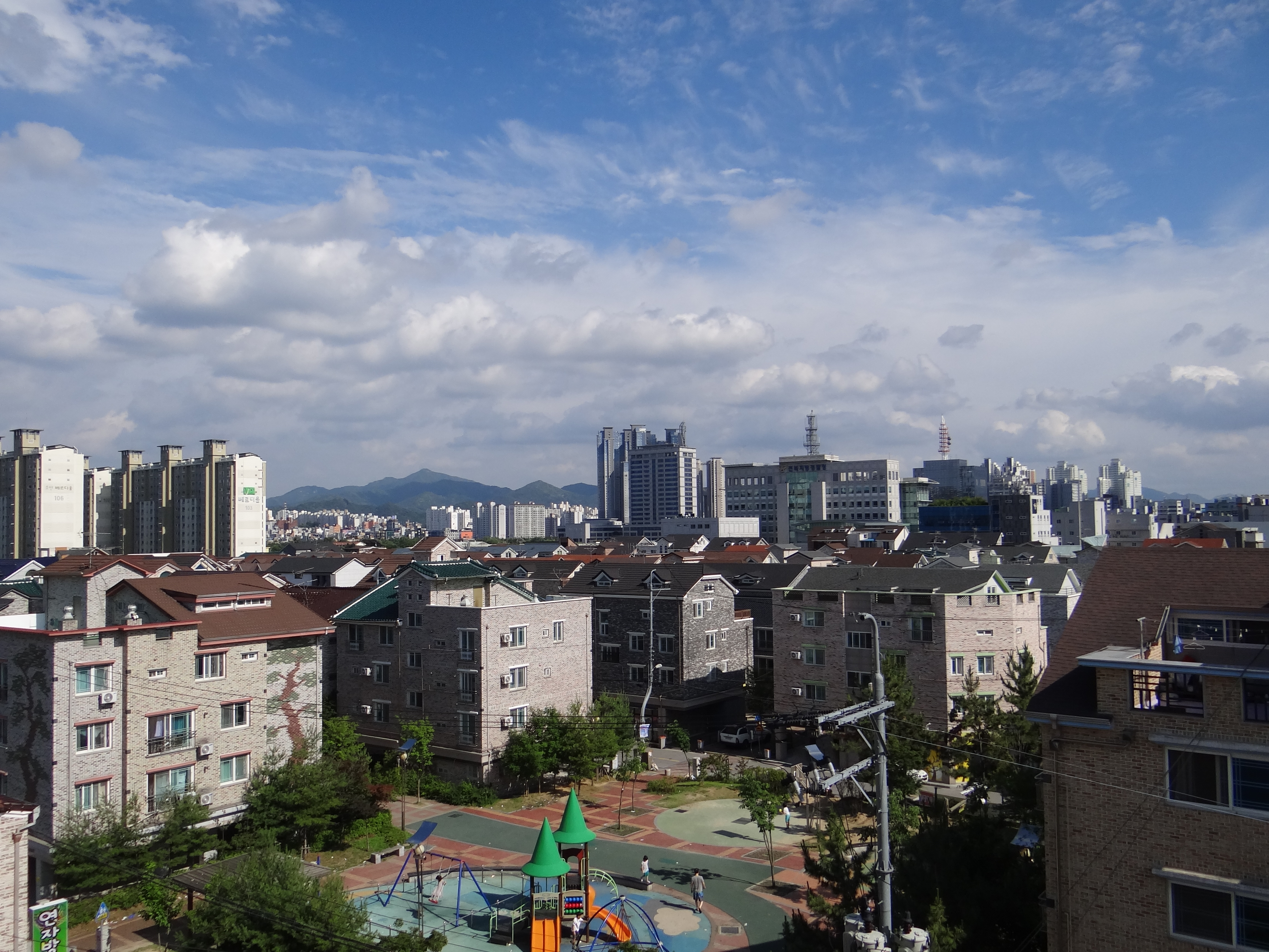 This picture was taken in June, 2016 in Jeonju (Hyoja Dong).